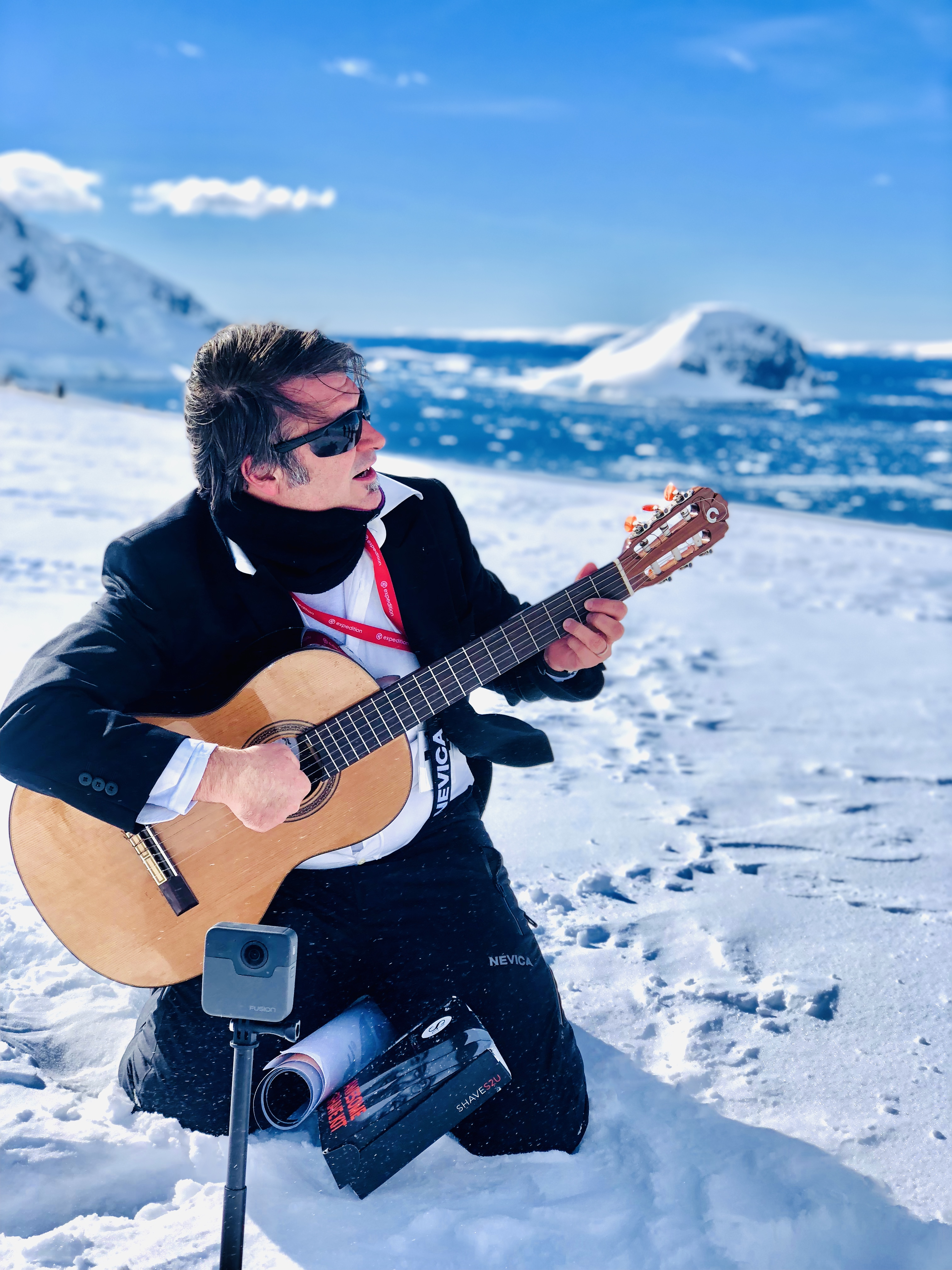 The Spanish guitarist Rafael Serrallet in his Antarctica trip in 2018.